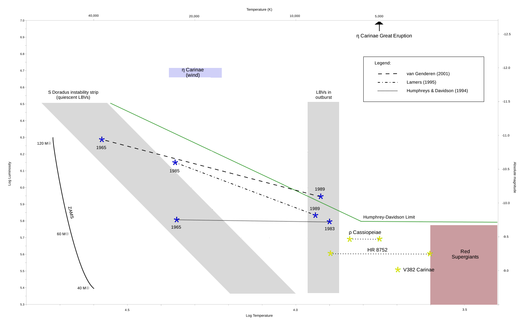 This image shows the position of S Doradus in the H-R diagram at maximum and minimum brightness according to different studies.